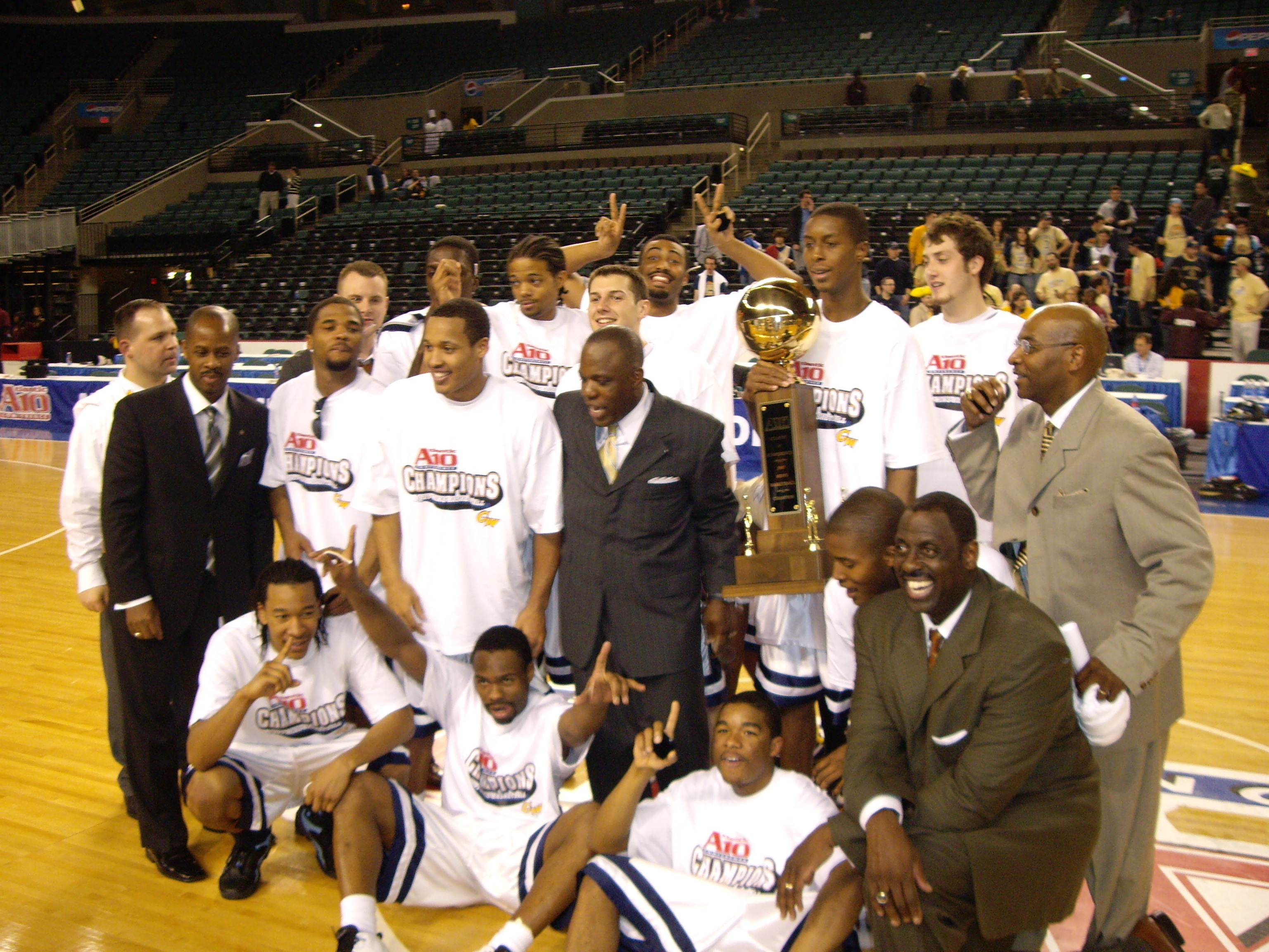 Photo of the GW Men's Basketball Team celebrating its second-ever Atlantic 10 Tournament Championship.